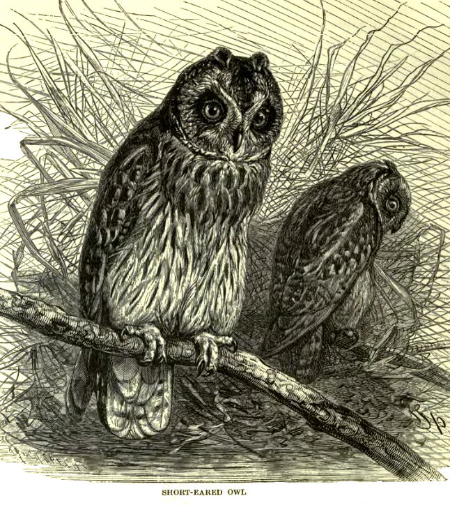 Short-eared Owl Asio flammeus